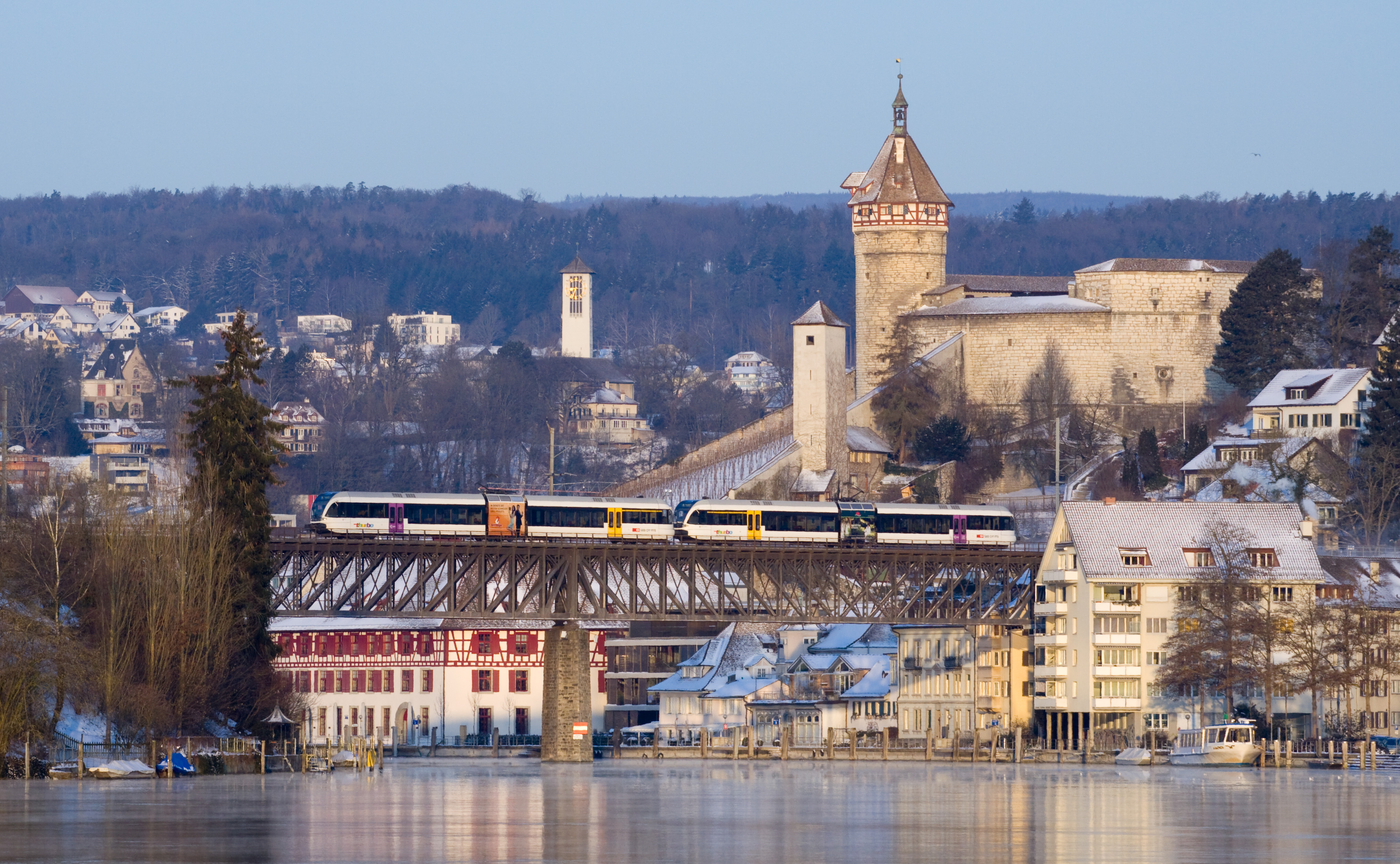 Two Thurbo GTW 2/6 are crossing the bridge over the Rhine between Schaffhausen and Feuerthalen, Switzerland. Zwei GTW 2/6 der Thurbo überqueren die Rheinbrücke zwischen Schaffhausen und Feuerthalen, Schweiz.